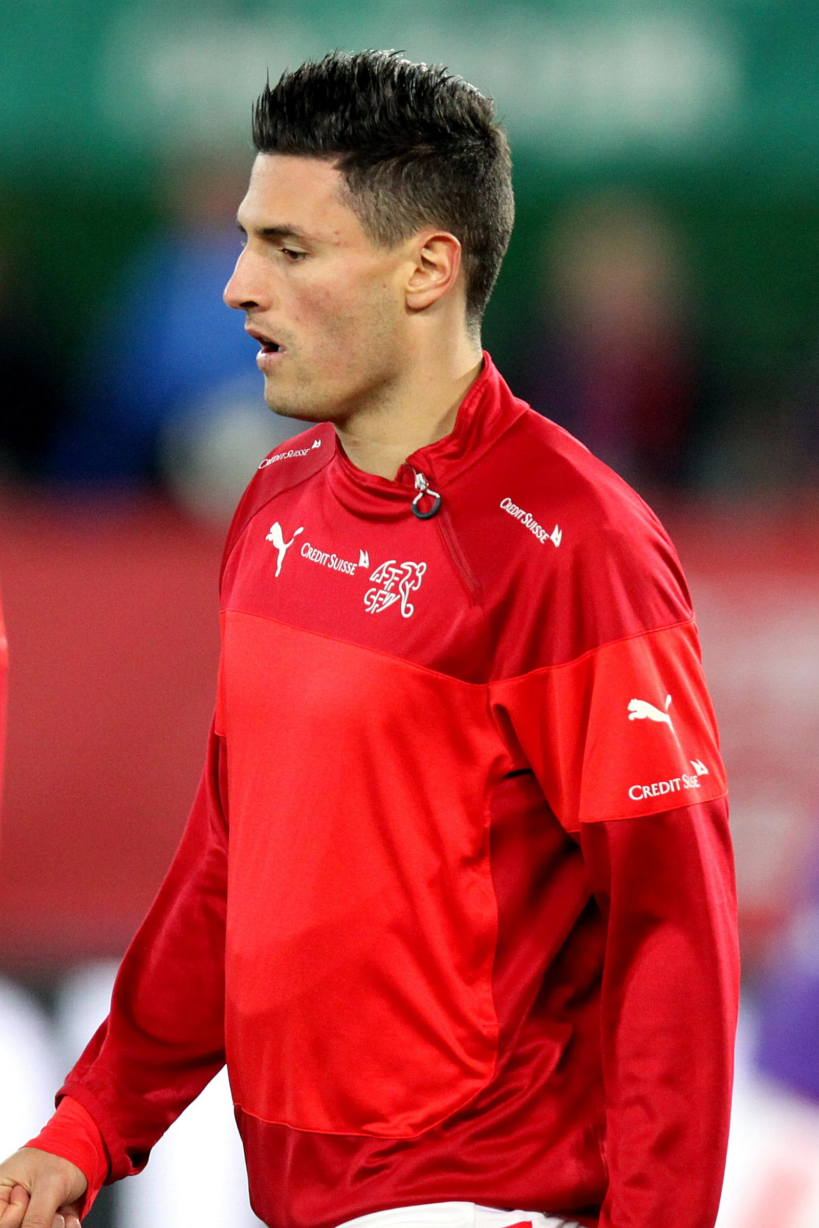 Friendly match – Austria (red shirts) vs. Switzerland (white shirts) 1-2 (1-2) – 2015-11-17 in Vienna, Ernst-Happel-Stadion – The photo shows Fabian Schär (Switzerland).